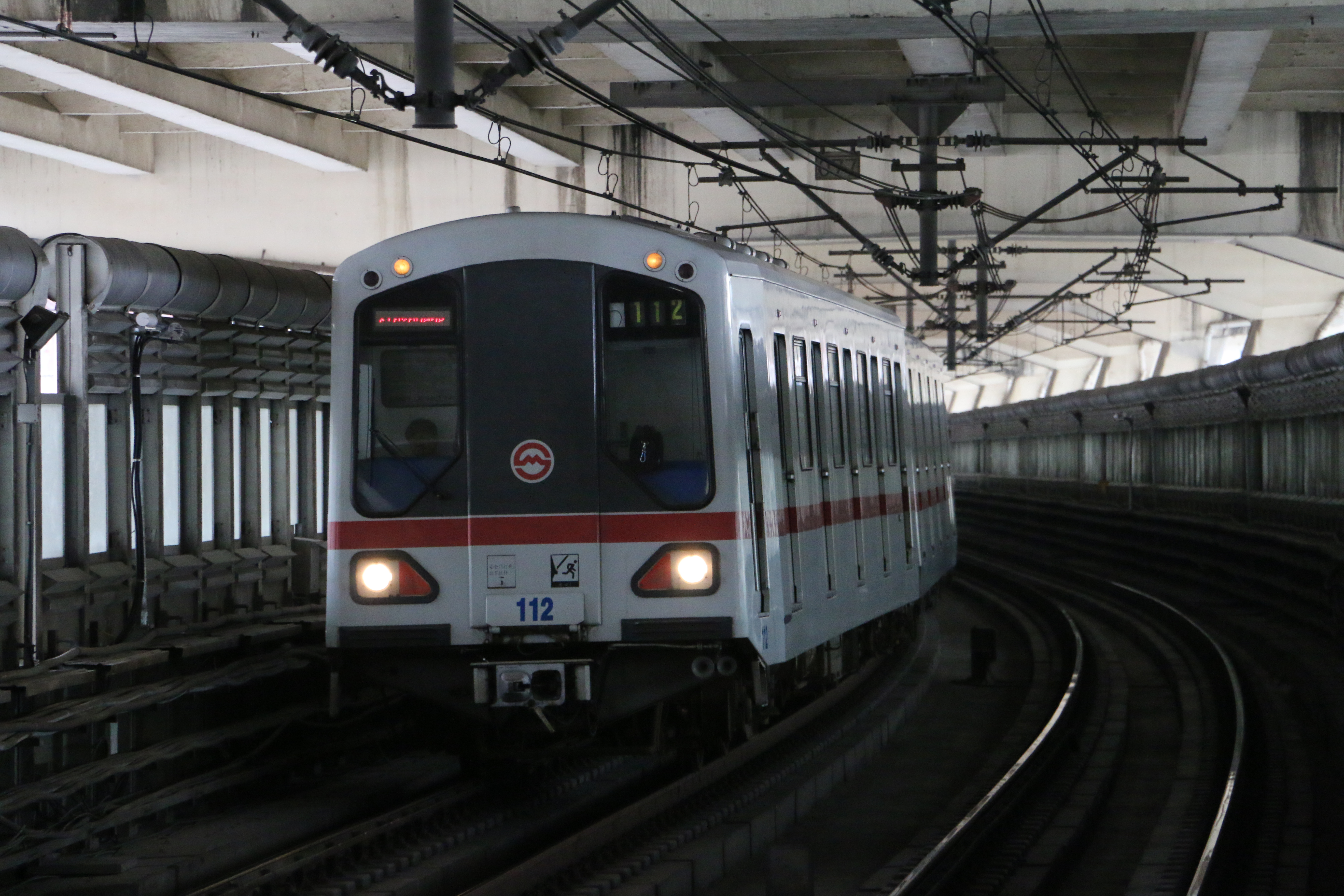 201604 DC01-104 enters Pengpu Xincun Station